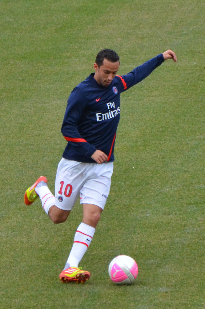 Football player Nene warming up before the match Dijon FCO vs Paris SG, on March 11th, 2012 (Dijon, France).